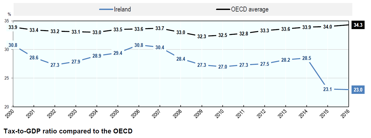 Recreation of the OECD Irish Revenue Statistics: Tax-to-GDP ratio (2000 to 2016)